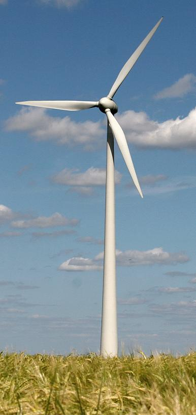 Modern wind energy plant in rural scenery.